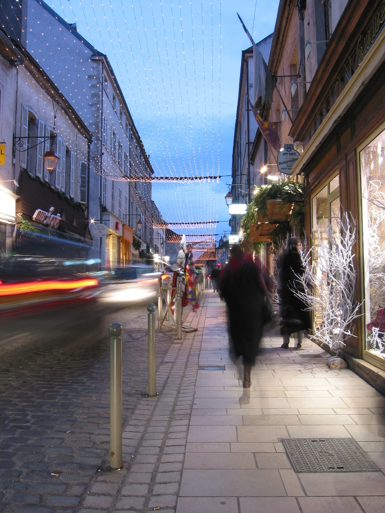 Rue d'Alsace in Beaune, France